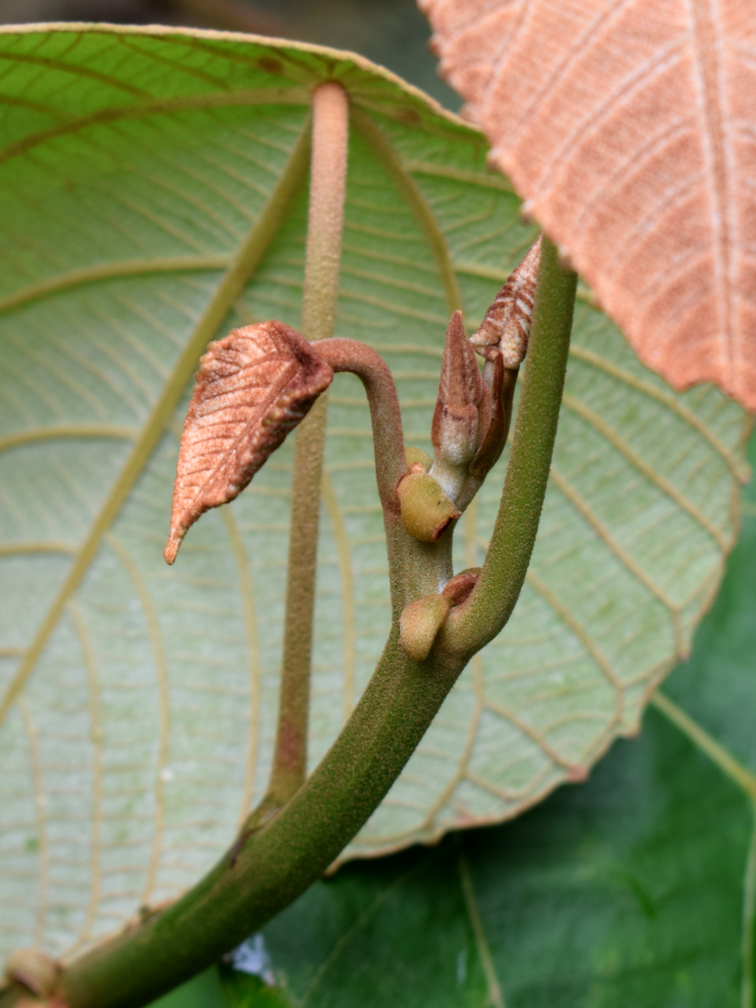 Macaranga rhizinoides; buds close up, note the stipules. From Mt. Tangkubanprahu, Subang, West Java, Indonesia.